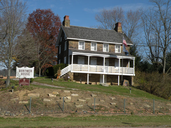 Picture of Burtner Stone House on Burtner Road in Harrison Township, Allegheny County, Pennsylvania, on November 7, 2009. The sign in front of the house lists the year 1821. The house is listed on the National Register of Historic Places.